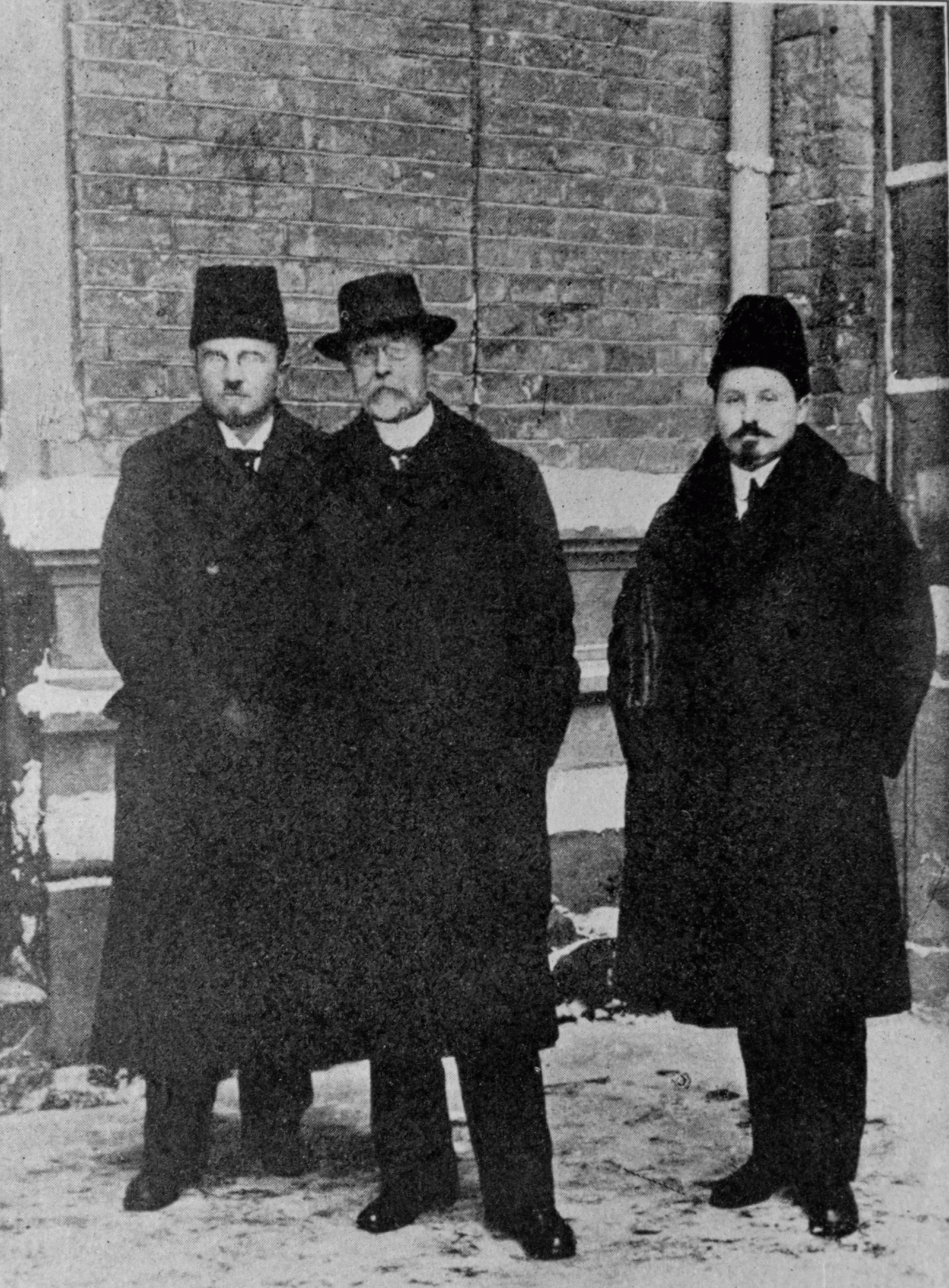 Tomas Garrigue Masaryk in St. Petersburg. On the right side is Jiří Klecanda (* 1890 - 1918), in the middle is Tomas Garrigue Masaryk, to the left side is Bohdan Pavlů (* 1883 - 1938). Photo before 1919.